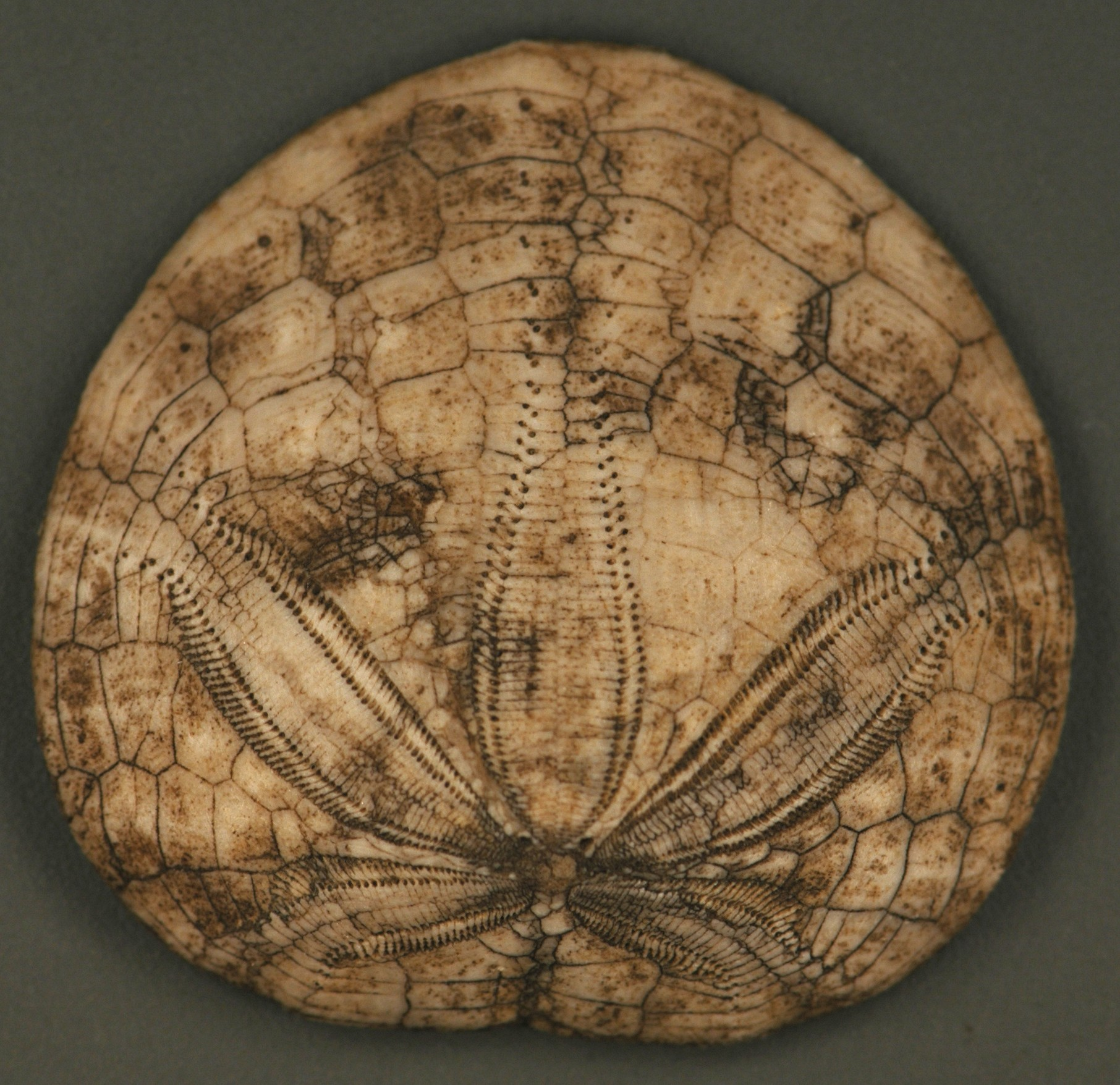 Dendraster gibbsii (4.3 cm across) from the Etchegoin Formation (Lower Pliocene) of the Kettleman Hills, California, USA. It has been prepared by air abrasion to better show the plate boundaries. Classification: Animalia, Echinodermata, Echinozoa, Echinoidea, Clypeasteroida, Scutellina, Dendrasteridae